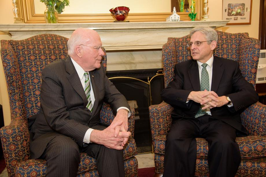 Leahy Meets with SCOTUS Nominee Chief Judge Merrick Garland - WASHINGTON (THURSDAY, March 17, 2016) – Senator Patrick Leahy (D-Vt.) THURSDAY met with Chief Judge Merrick Garland, President Obama’s nominee to the Supreme Court of the United States. The meeting in Leahy’s office on Capitol Hill was the first official meeting that Judge Garland held with any member of the Senate as the President’s nominee. Leahy is the Ranking Member of the Senate Judiciary Committee.